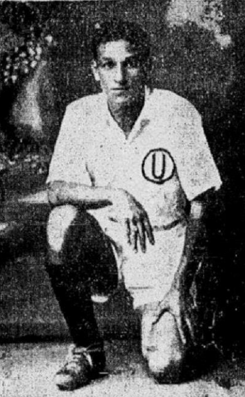 Lolo Fernandez in his first season with Universitario.